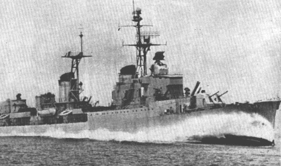 The Italian Marina Militare destroyer leader San Giorgio (D562). San Giorgio was originally commissioned as the Capitani Romani-class light cruiser Pompeo Magno during the Second World War. She was extensively rebuilt in 1951-55 and fitted with American weapons and radar. Note the already outdated Mk 12/22 radar on the Mk 37 gun director.